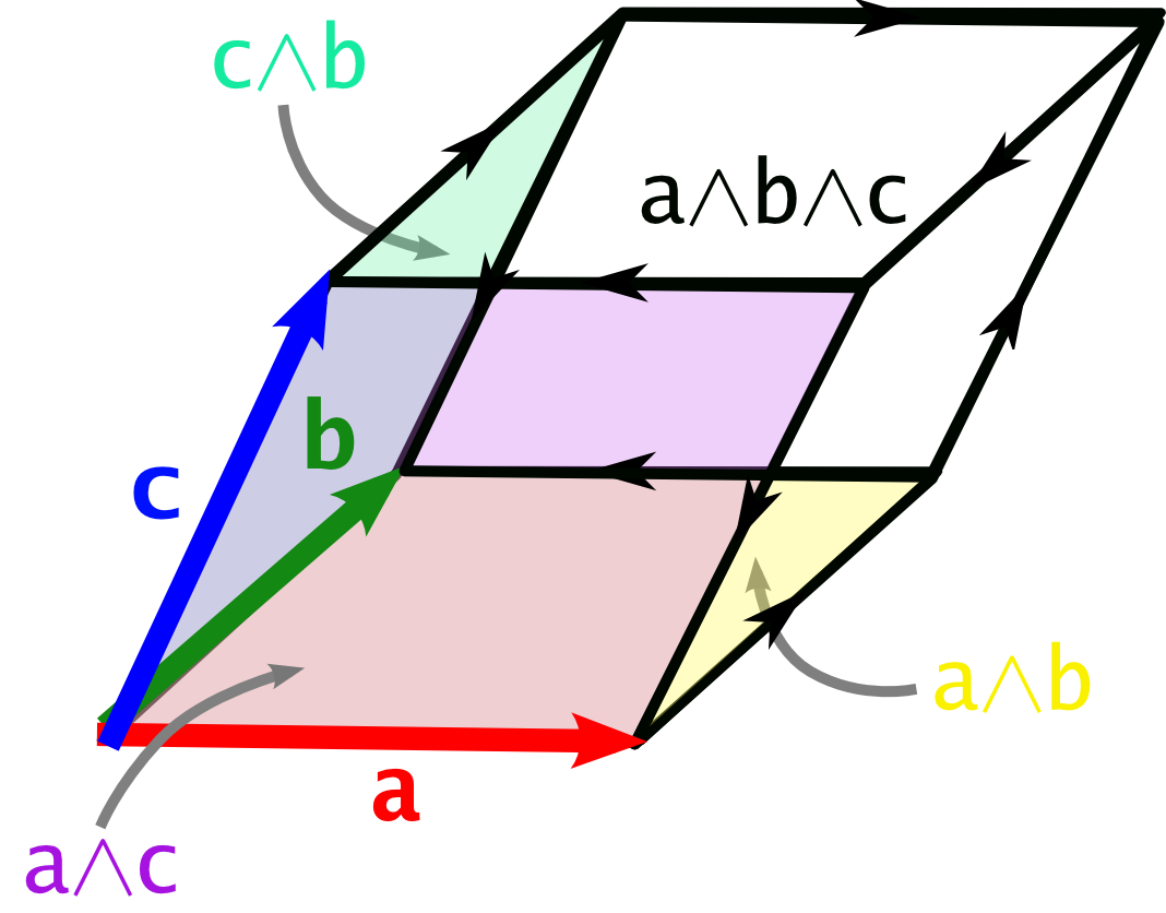 see Triple product